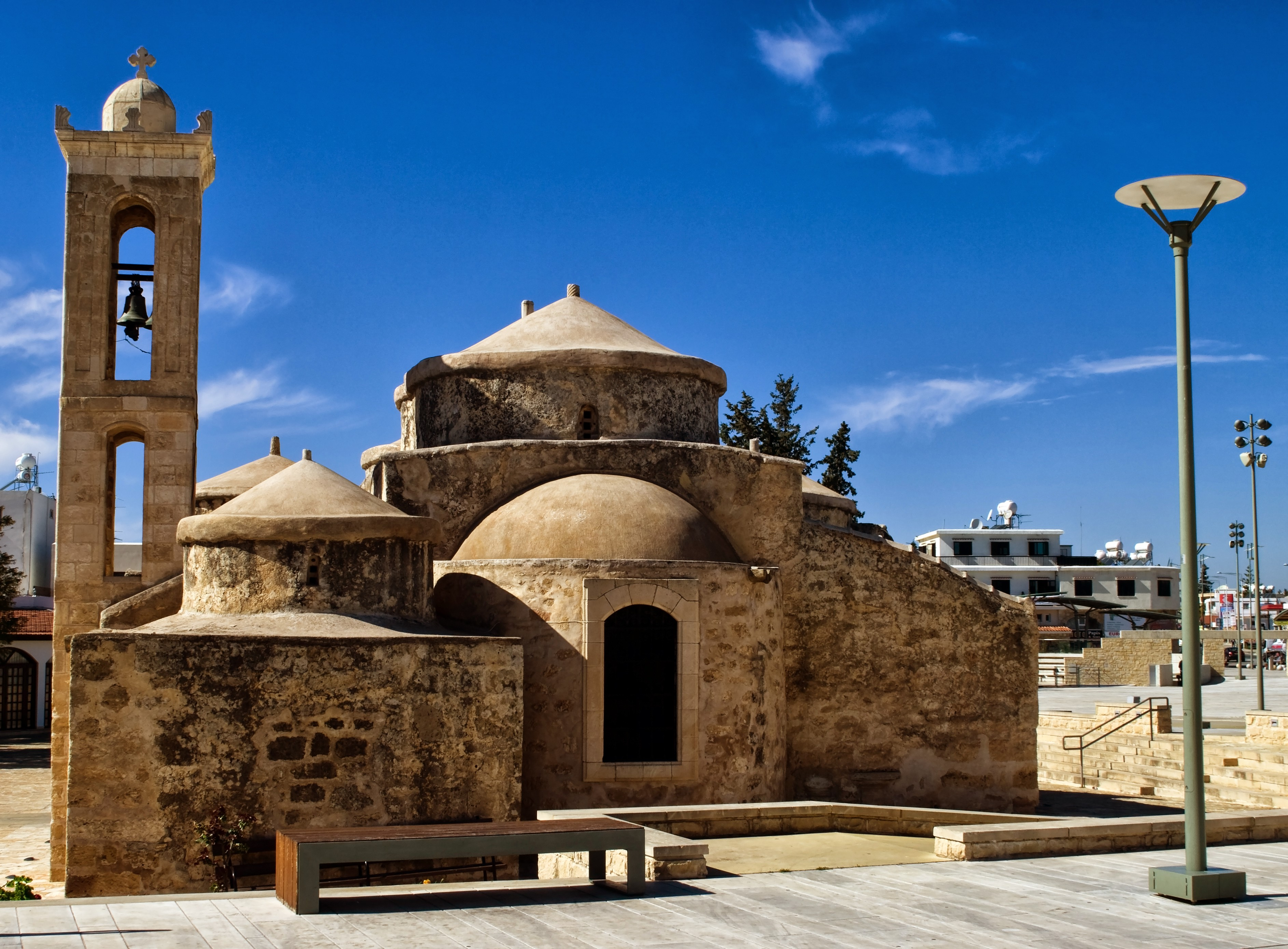 Church of Agia Paraskevi - Geroskipou, Cyprus.